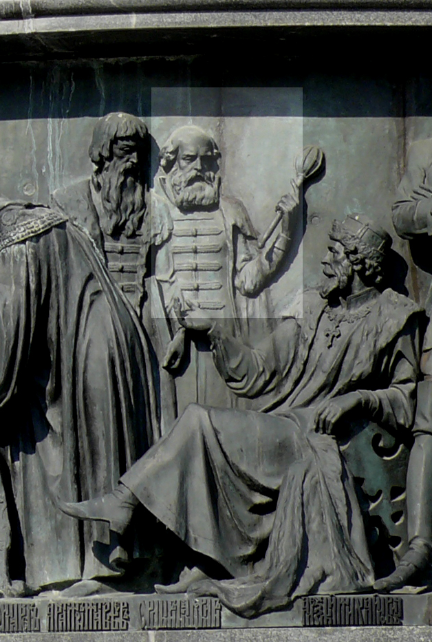 Artamon Matveev on the Monument «Millennium of Russia» in Veliky Novgorod